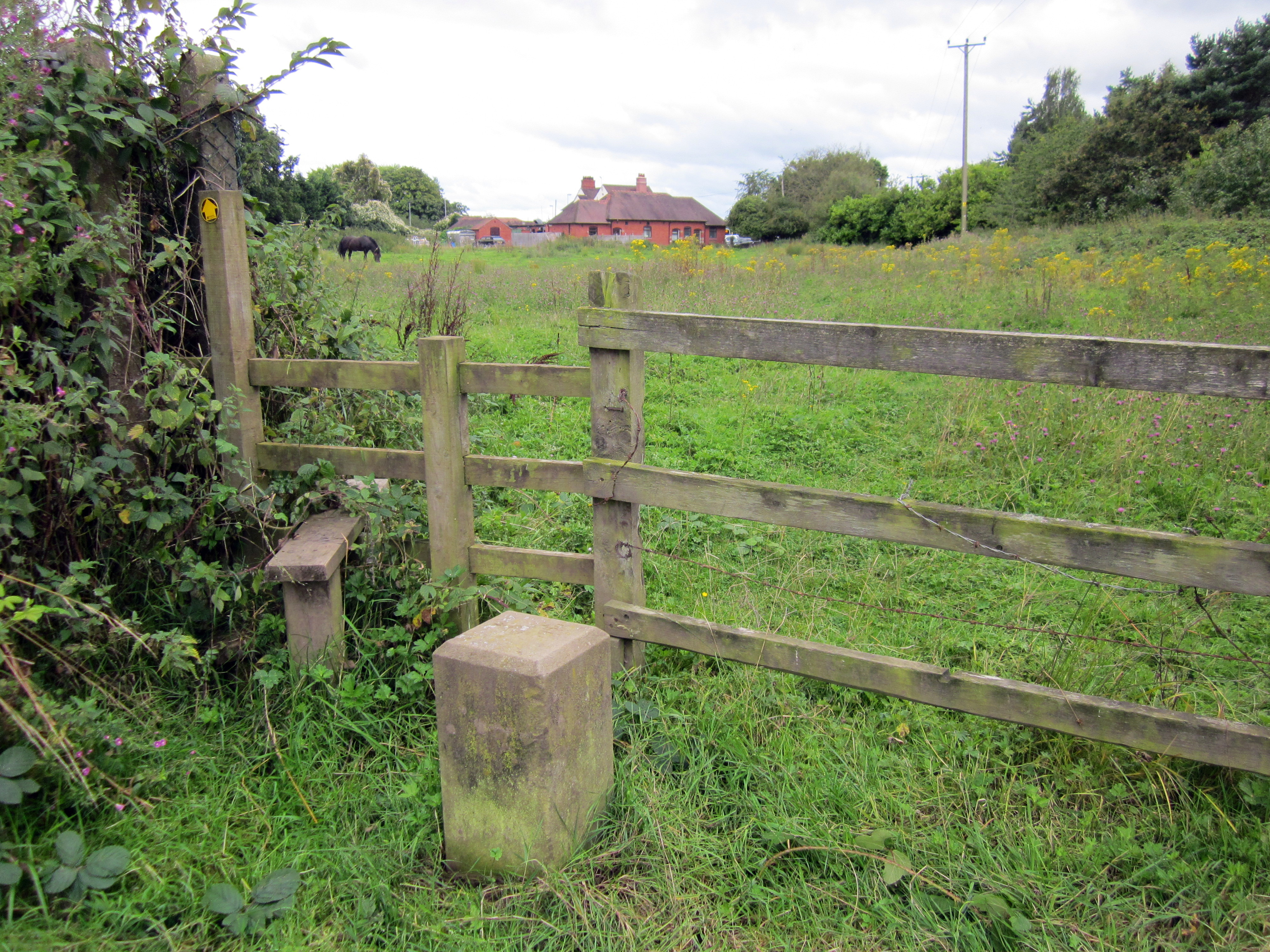 Footpath and Stile at Huntington, Cheshire